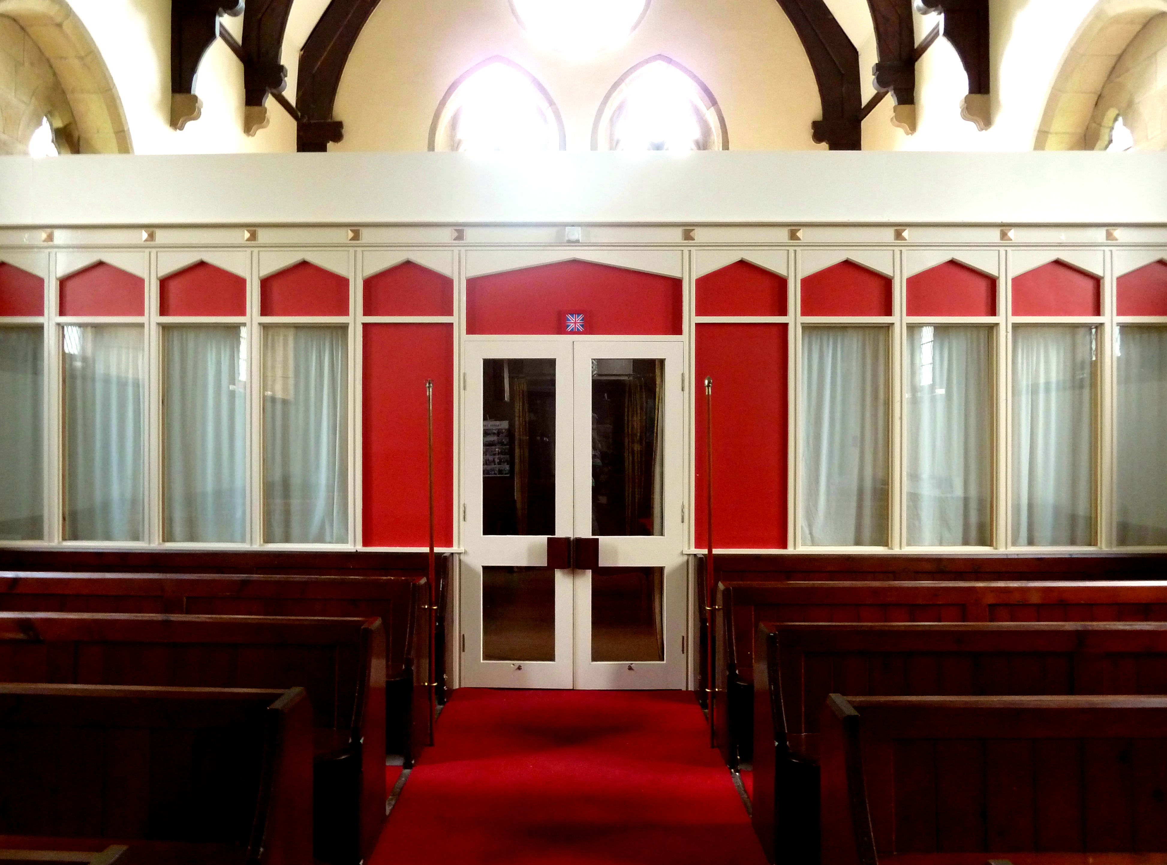 Interior of the Church of St Thomas, Thurstonland, Huddersfield, West Yorkshire, England. Built 1870, designed by James Mallinson and William Swinden Barber. Frontage of Church Room, erected at west end of church in the 1980s. It contains a meeting room, with a kitchen behind, all within the back of the nave.